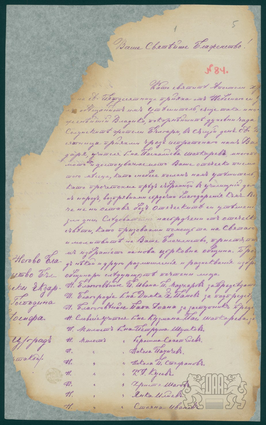 Election of New Bulgarian Municipality in Thessaloniki, 9 June 1880 - Page 1